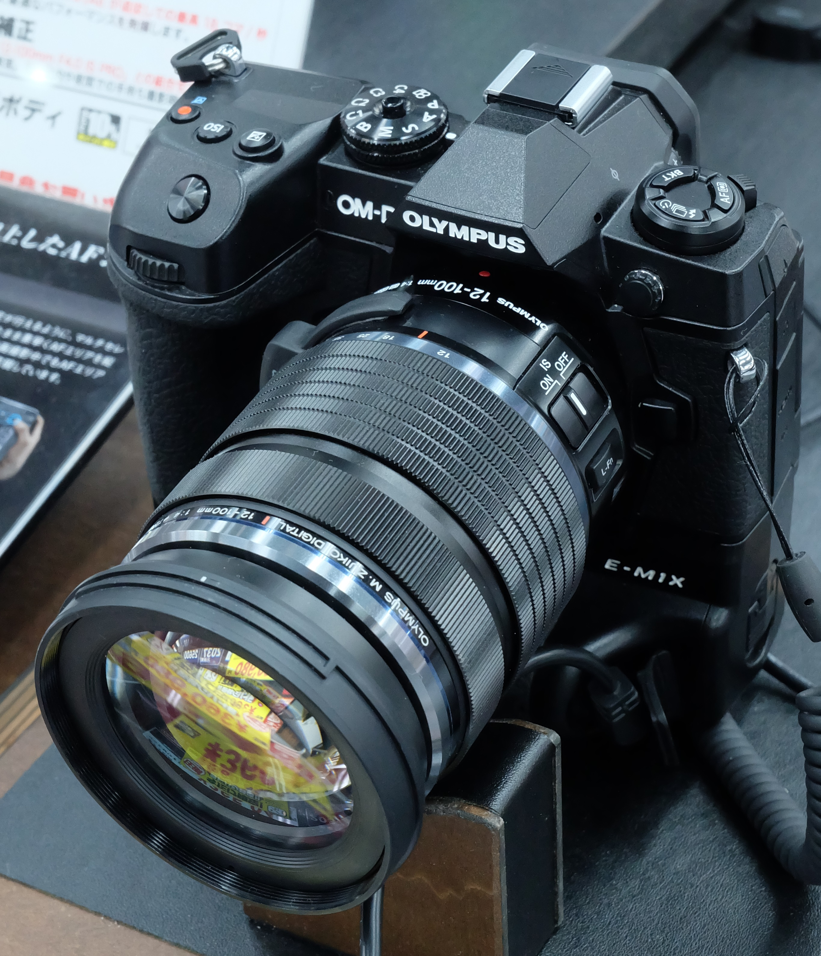 Olympus OM-D E-M1X (photo taken at Yodobashi Camera)